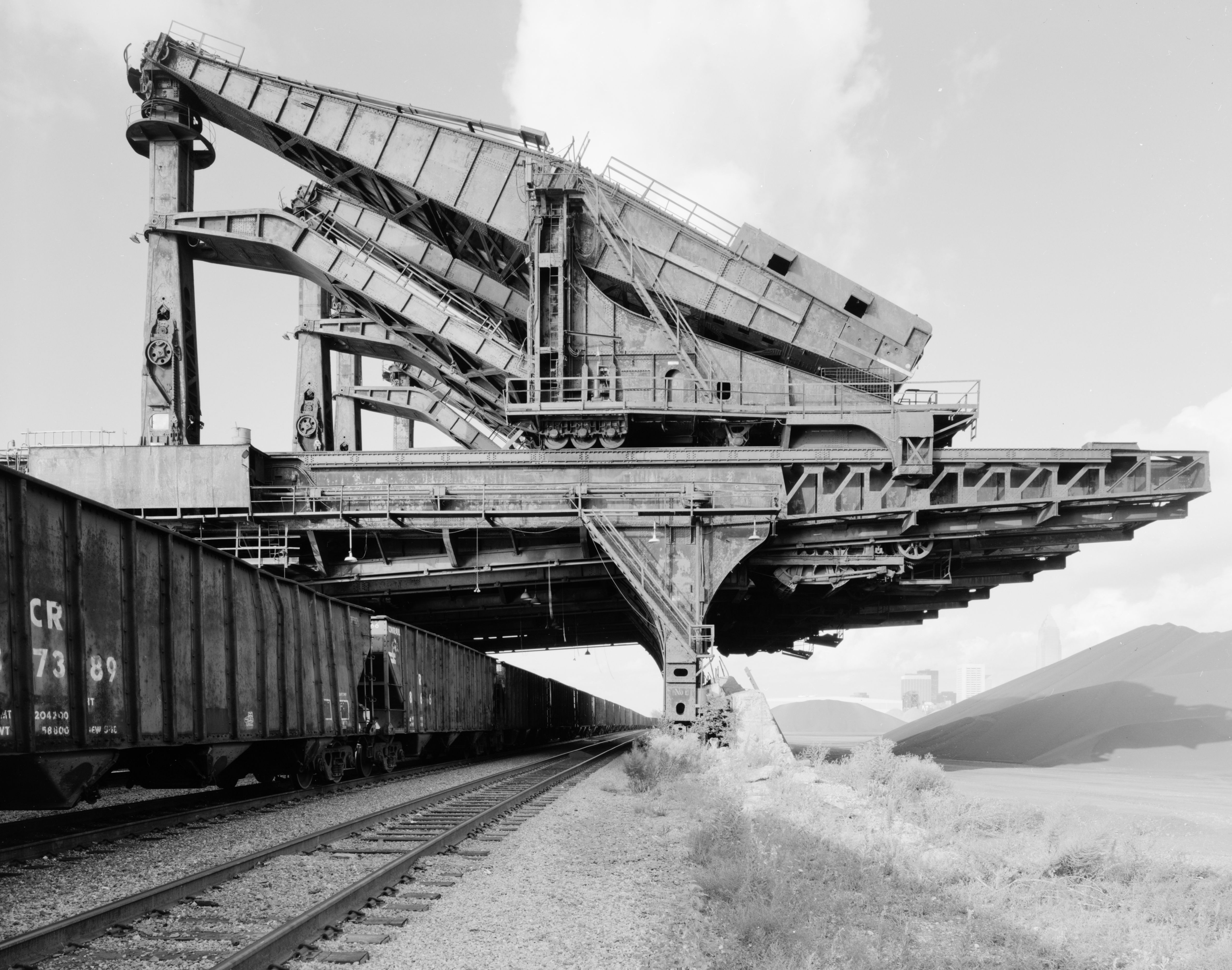 National Register of Historic Places in Ohio. Pennsylvania Railway Ore Dock, initial construction 1911, Lake Erie at Whiskey Island, approximately 1.5 miles west of Public Square, Cleveland, Cuyahoga County, Ohio.